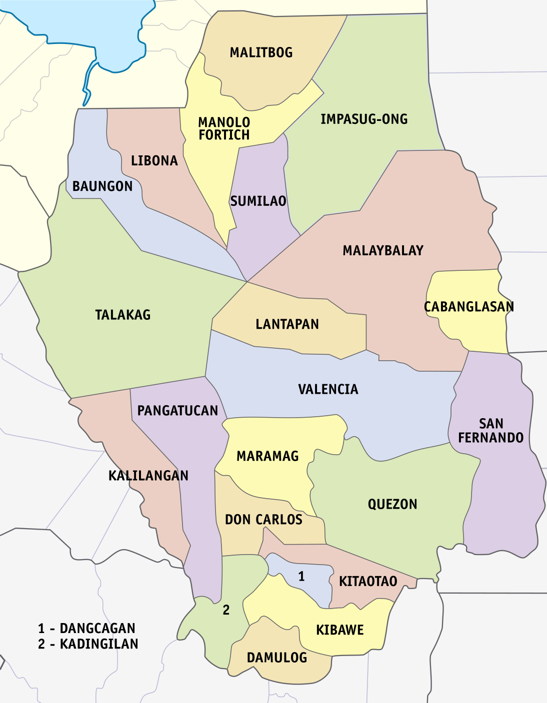 Political map of the province of Bukidnon.